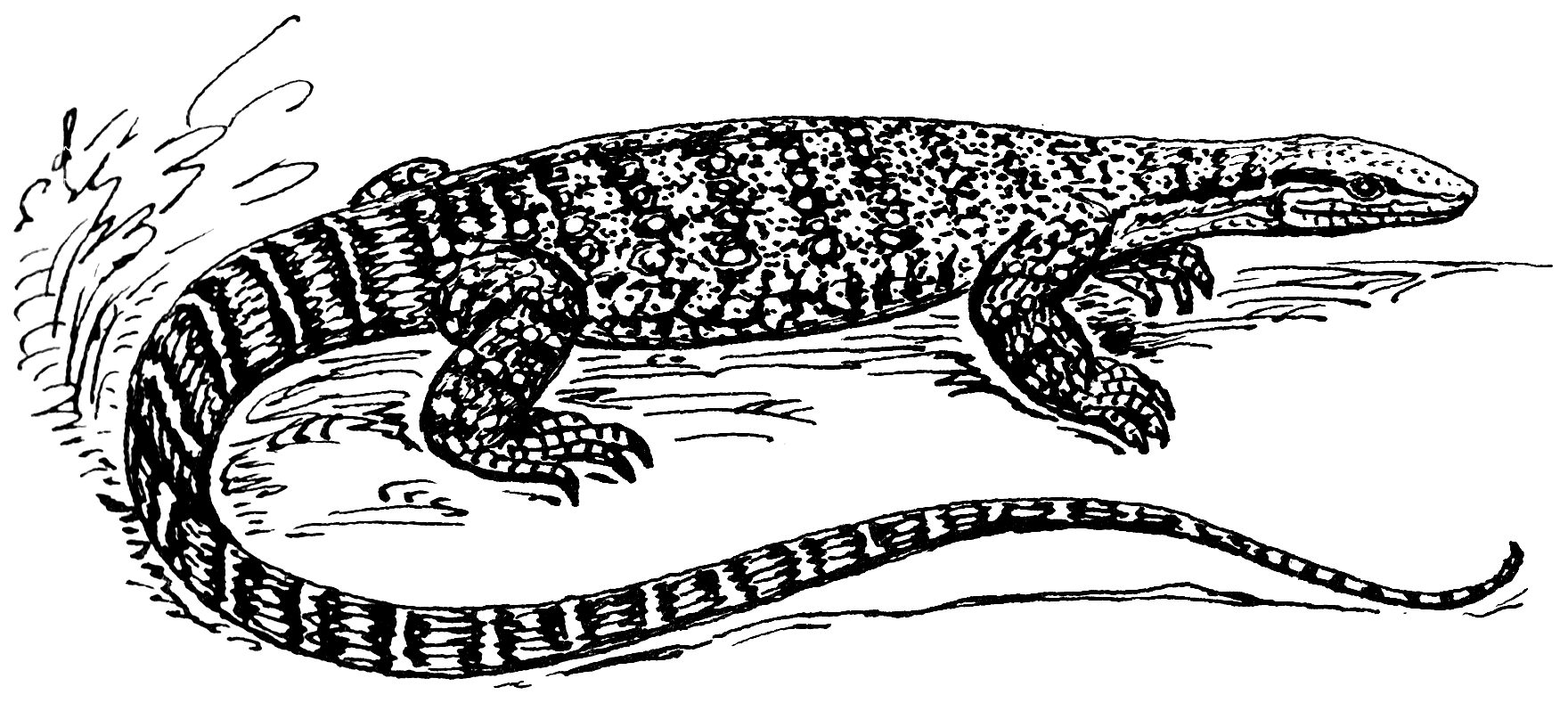 Line art drawing of a monitor lizard.